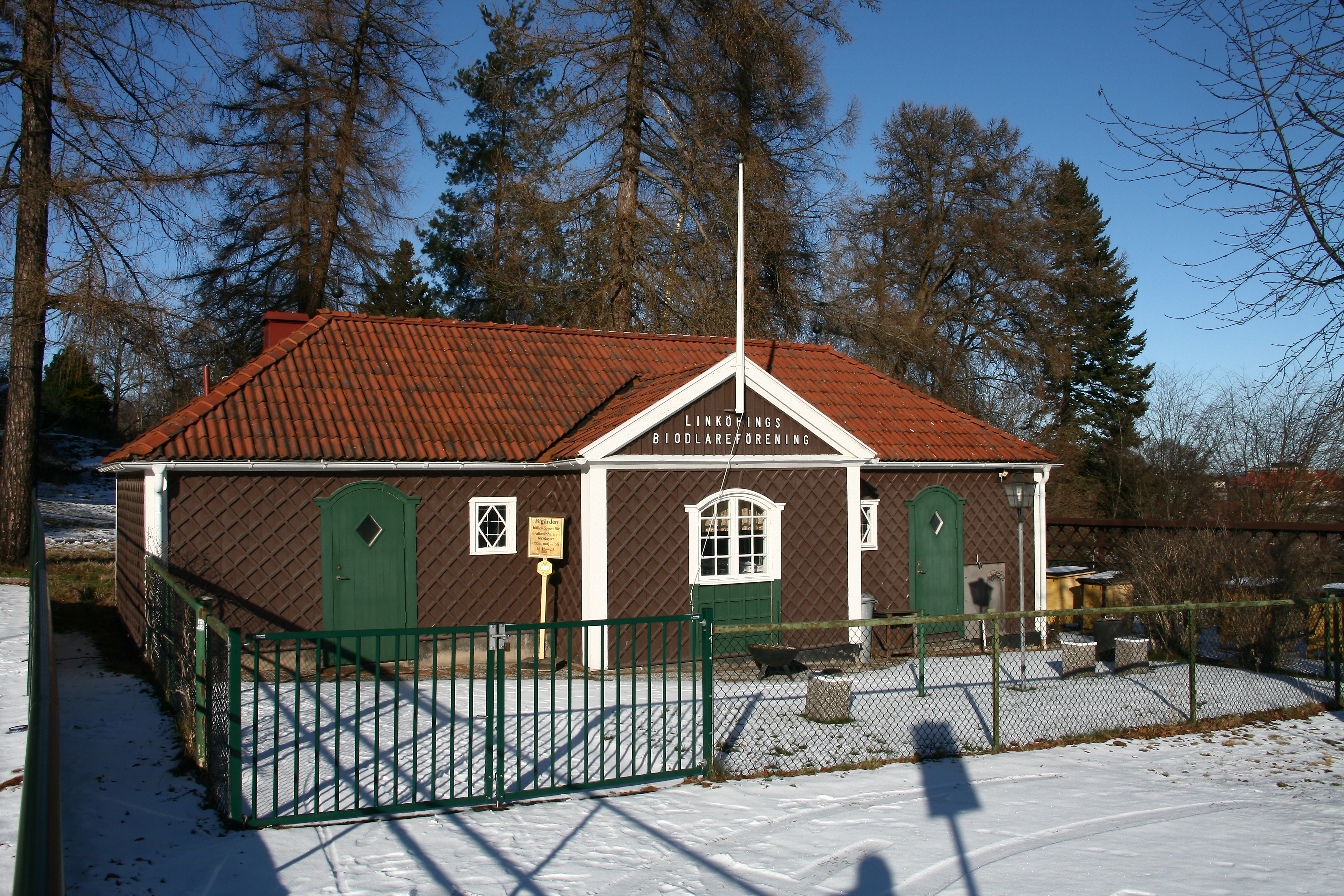 Club house of the Linköping beekeeper society, in the winter.